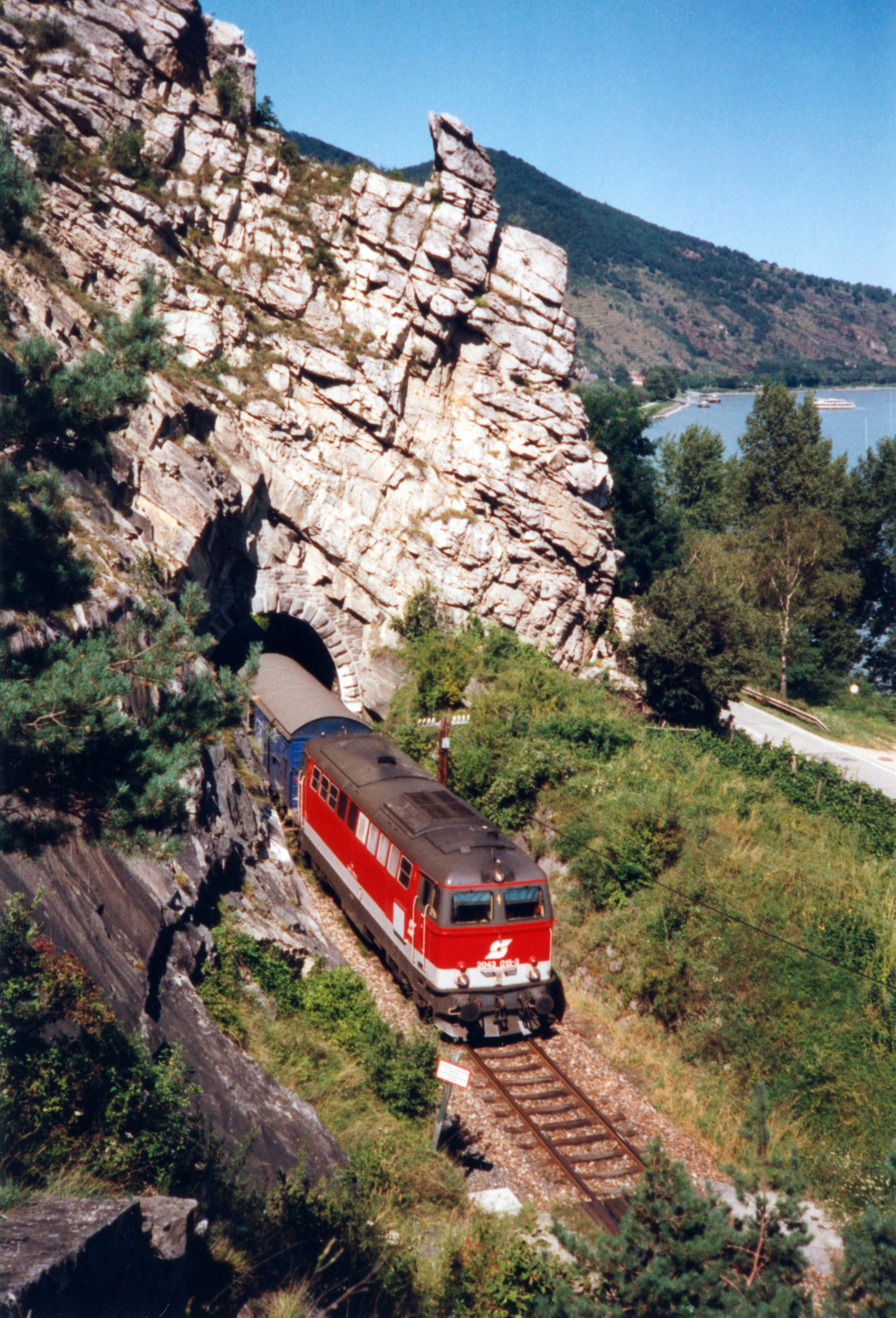 Natural monument KR-012 Teufelsmauer, near Spitz, district Krems-Land, Lower Austria. Zug der Donauuferbahn mit 2043 015